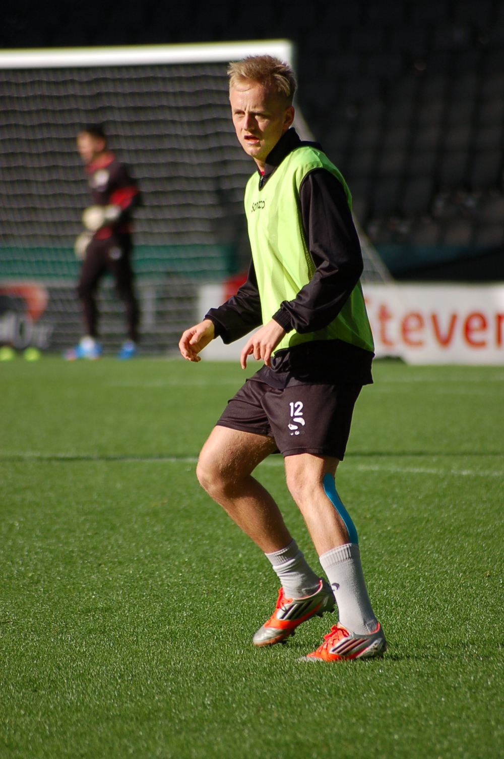 Ben Reeves during MK Dons open training on 29 October 2013.